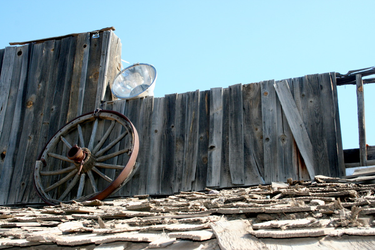 Small out of the way town south of Payson. This was the General Store and bar, closed for 3 years.